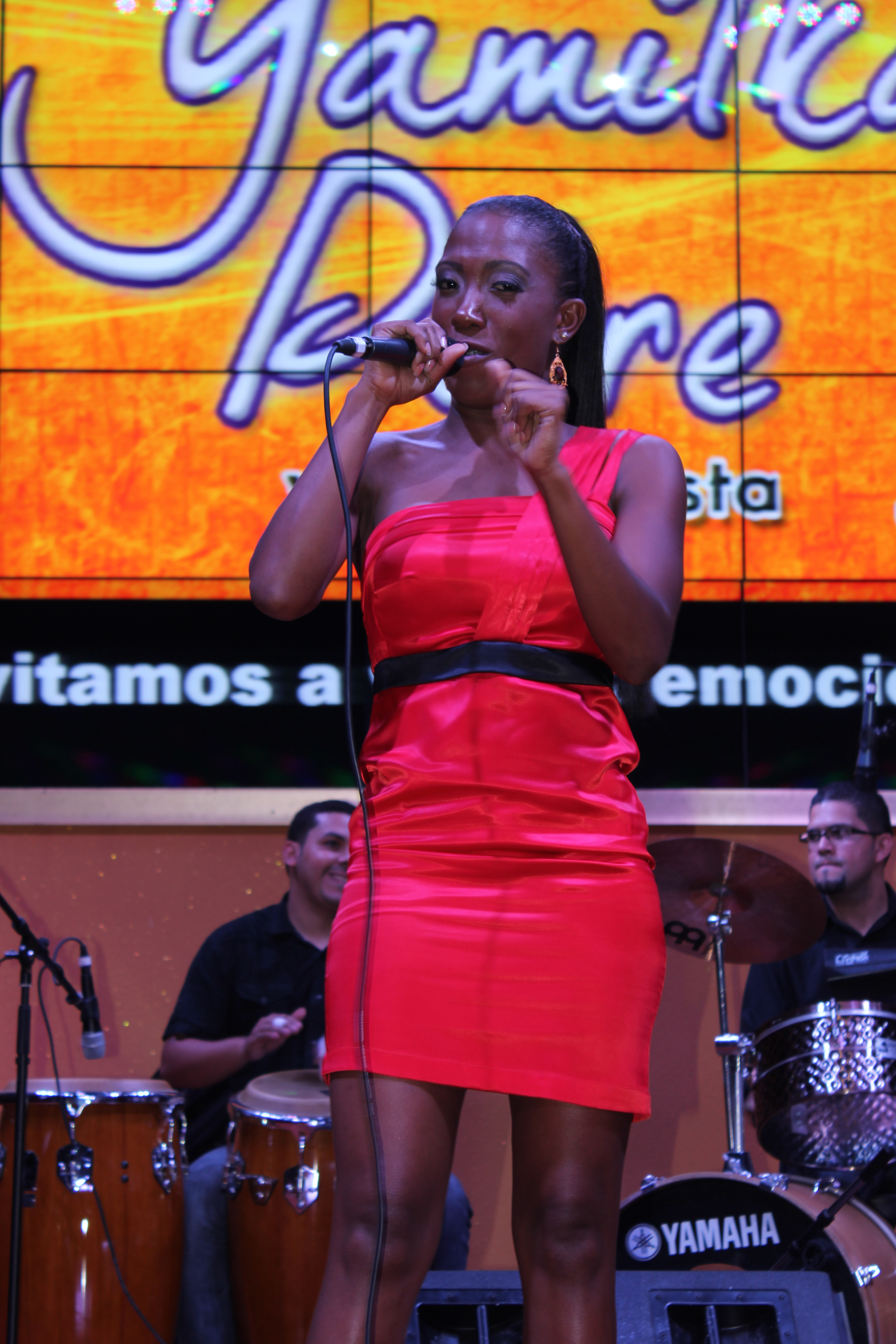 Yamilka Pitre: Panamanian singer, winner of the local reality show "Vive la Música"